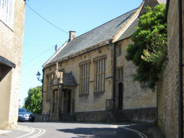 Church Hall, Crewkerne. The former Grammar School was founded in 1499 on the site of a priest's house by John Combe,a Canon of Exeter who was vicar of Crewkerne from 1472 to 1496. See also image Church Hall - blue plaque - .uk - 893912.jpg. The present building dates from 1636 and is now the Church Hall. For more information, see Wikipedia article Crewkerne Grammar School.